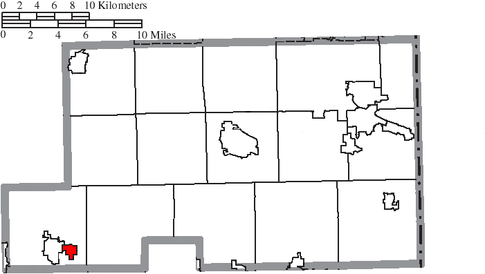 Map of the municipal and township boundaries of Mahoning County, Ohio, United States, as of the 2000 census, with the location of the village of Beloit highlighted. Township borders are shown only in unincorporated areas in order to differentiate incorporated and unincorporated areas more clearly.